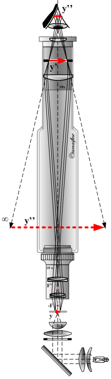 Microscope optical schematics.